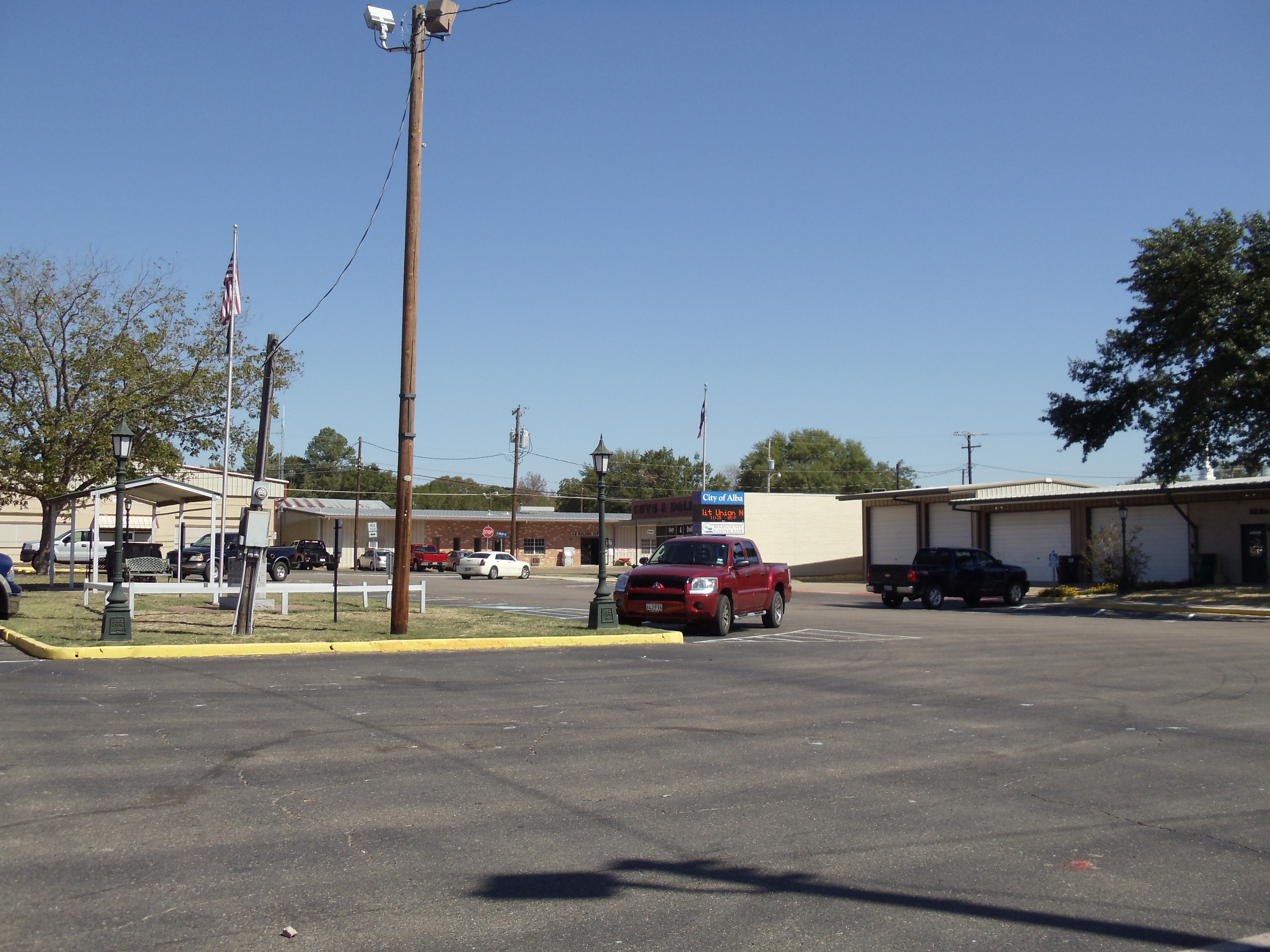 Downtown Alba